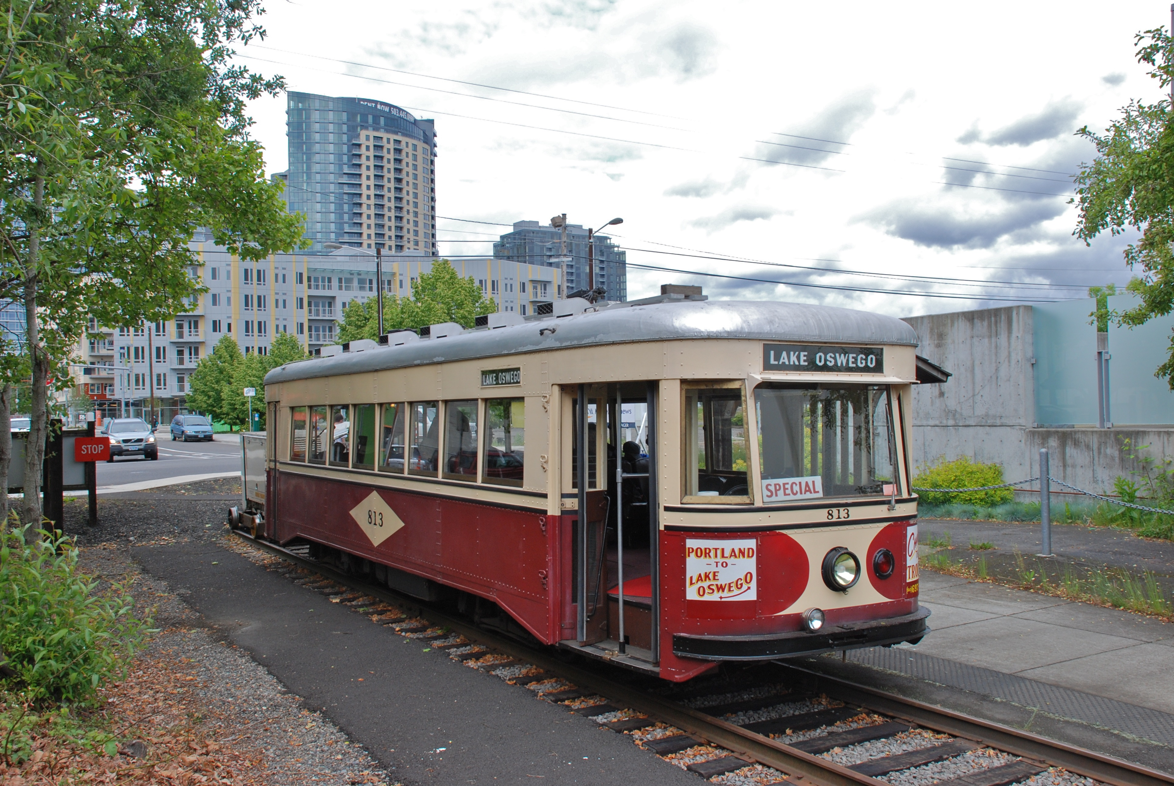 Ex-Portland Traction Company car 813, a 1932 Brill "Master Unit" streetcar restored by the Oregon Electric Railway Historical Society, in service on the Willamette Shore Trolley line in May 2010. It is waiting at the Portland terminus, at Bancroft Street, to start a trip to Lake Oswego. Car 813 first began serving the WST line in 1996, but 2010 was its final season on the line; it broke down in July 2010, and in 2012 it was moved to the Oregon Electric Railway Museum, for eventual repair. This was the WST's Portland terminus after September 2003; previously, it had been farther north. The tallest of the buildings visible in the background is The Ardea.